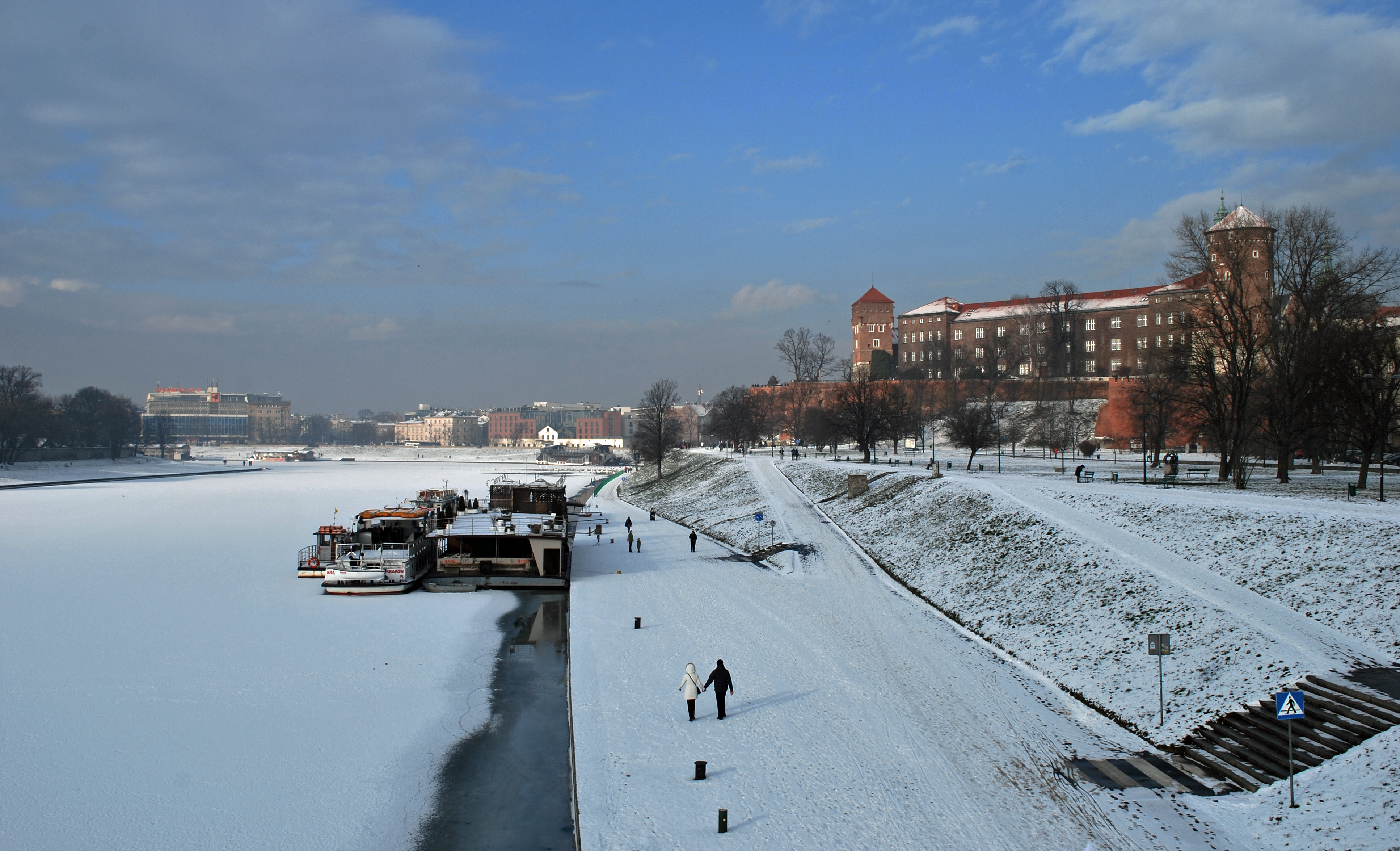 Wisła Boulevards, Kraków, Poland